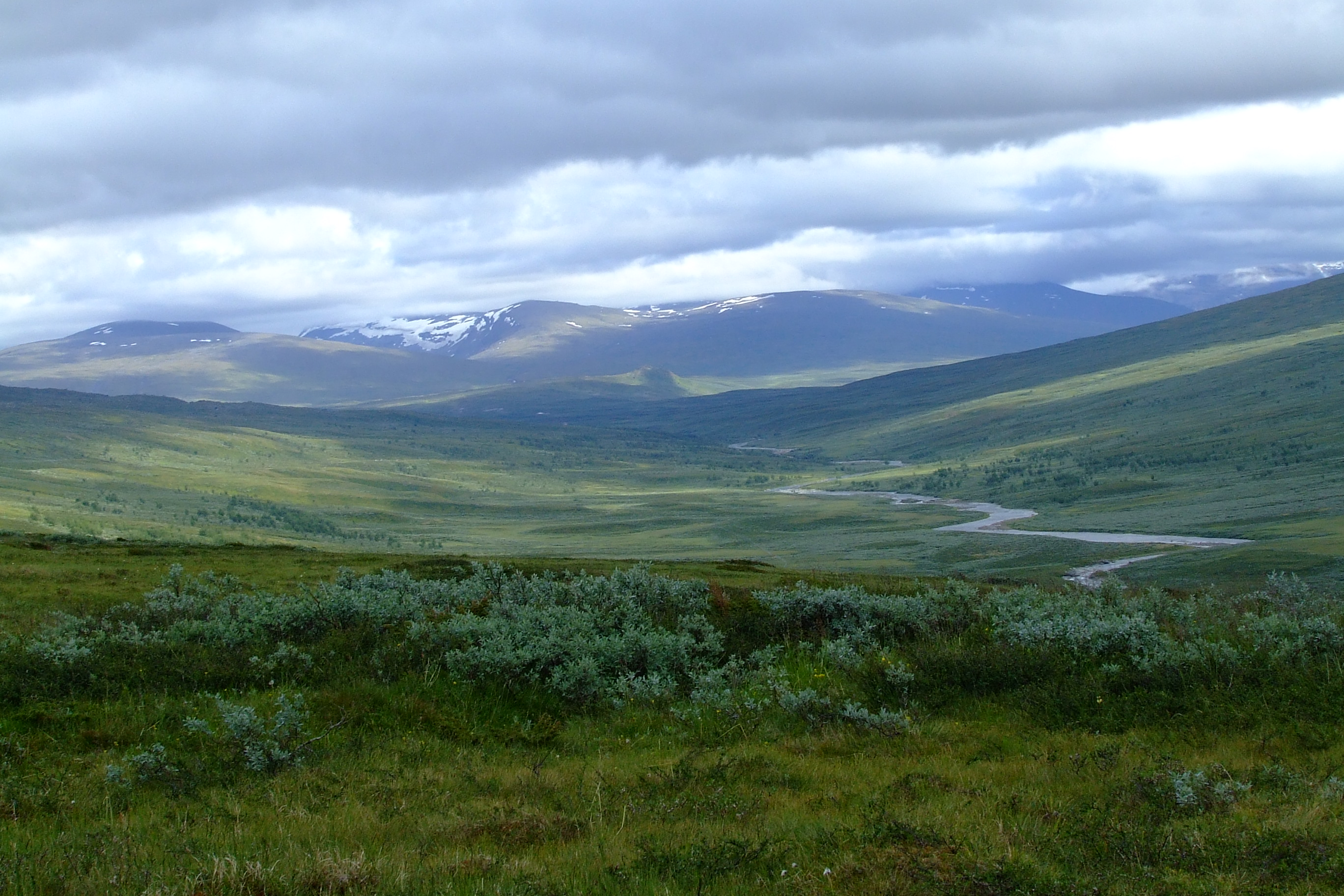 Padjelanta National Park